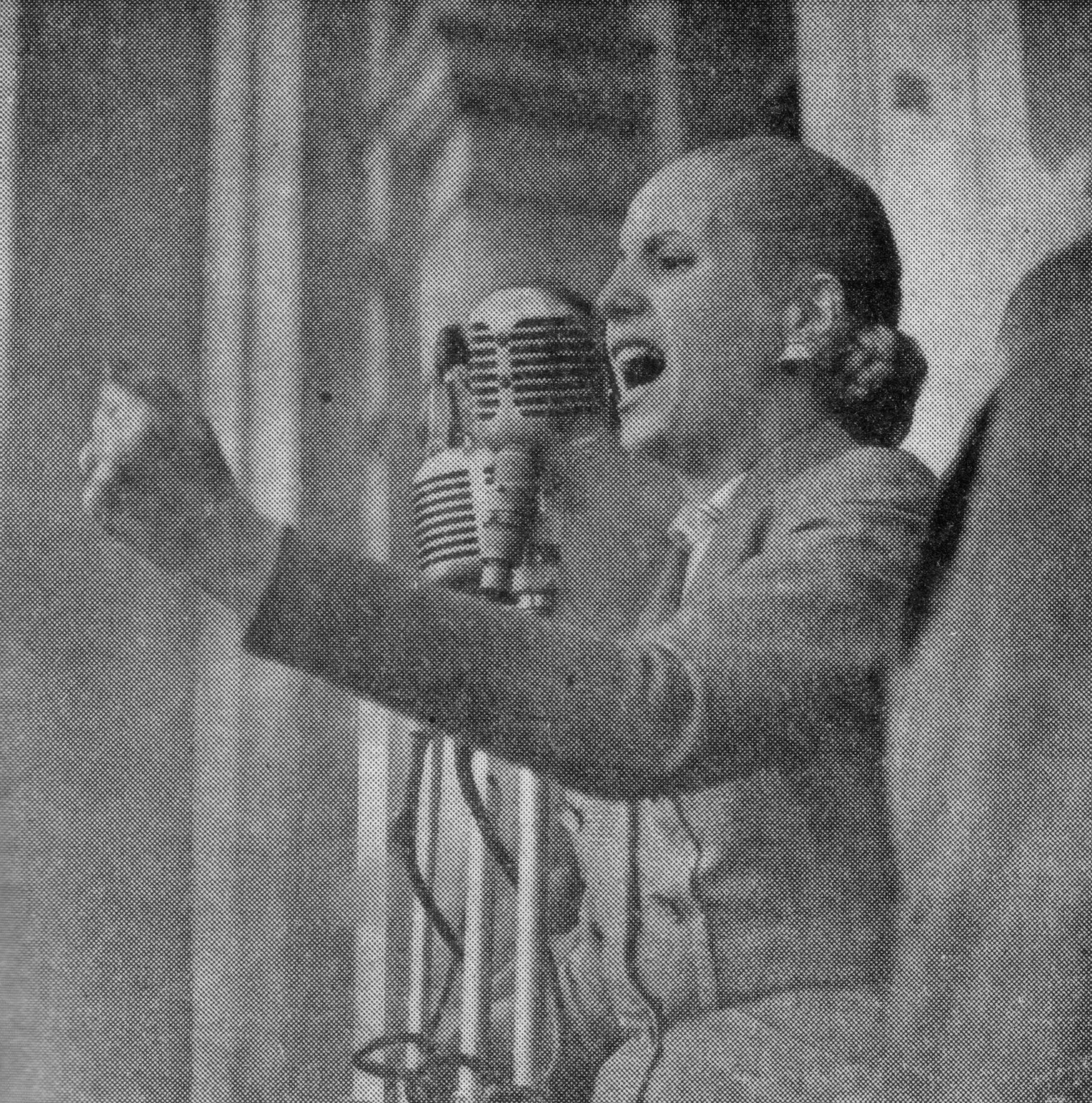 Evita giving a speech